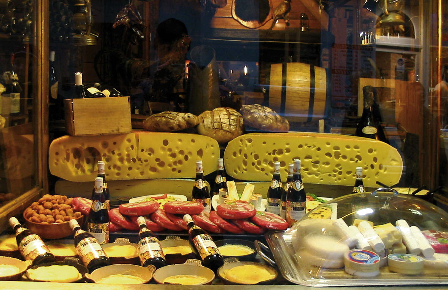 Cheese in the window of a shop in Paris